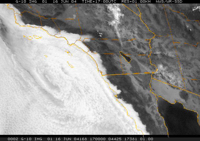 Weather satellite picture of the "June Gloom" and coastal eddy in southern California.